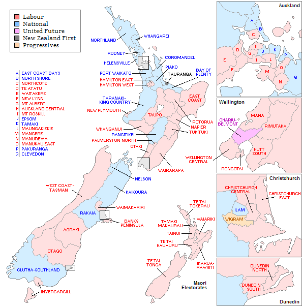 Election map depicting the electorate results of the New Zealand general election, 2002. Colours denote the party affiliation of the winning electorate candidates.